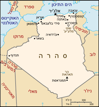 Harta Algjeria nga CIA World Factbook